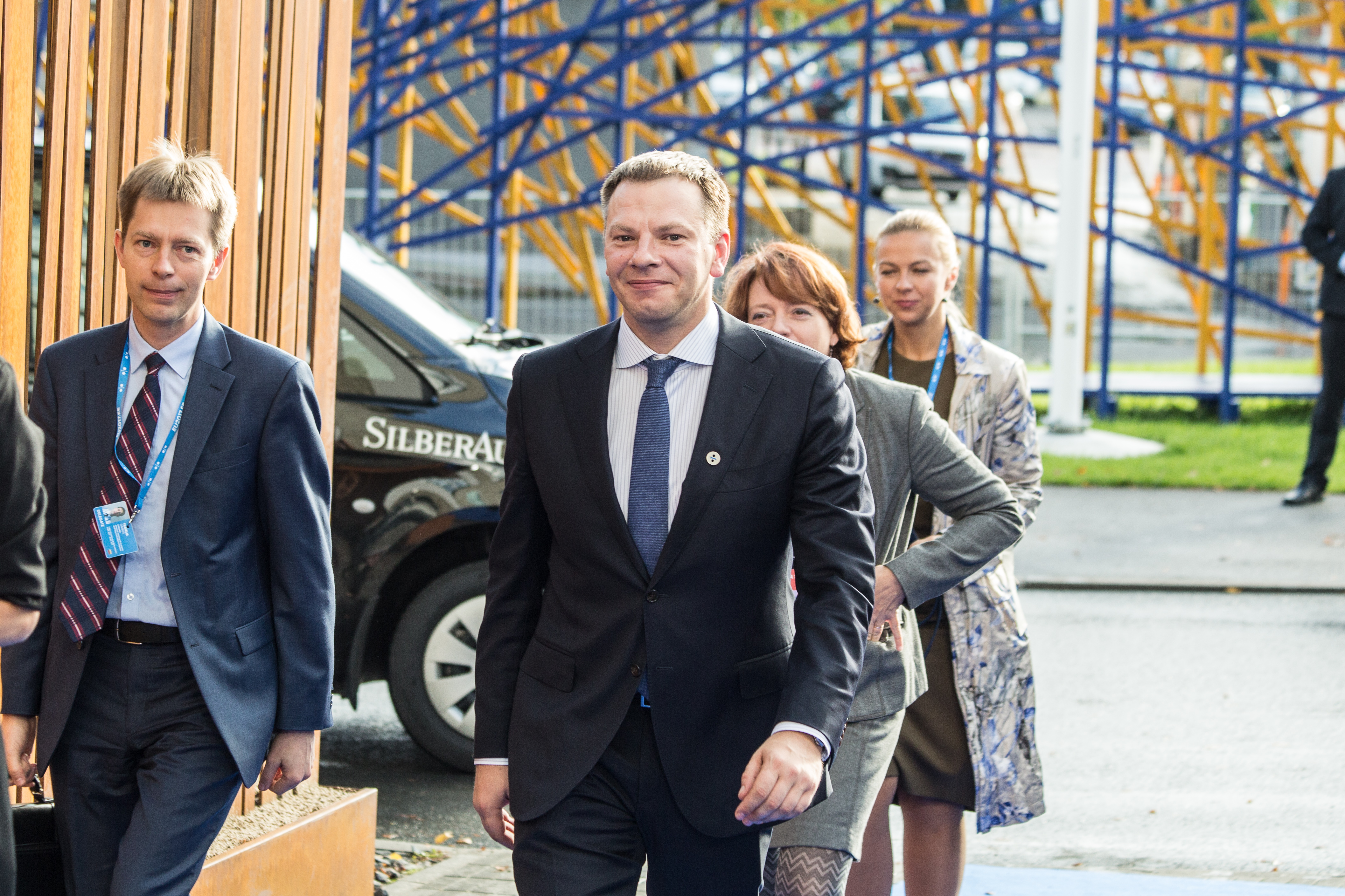 Vilius Šapoka, Minister, Ministry of Finance, Lithuania Photo: Aron Urb (EU2017EE)